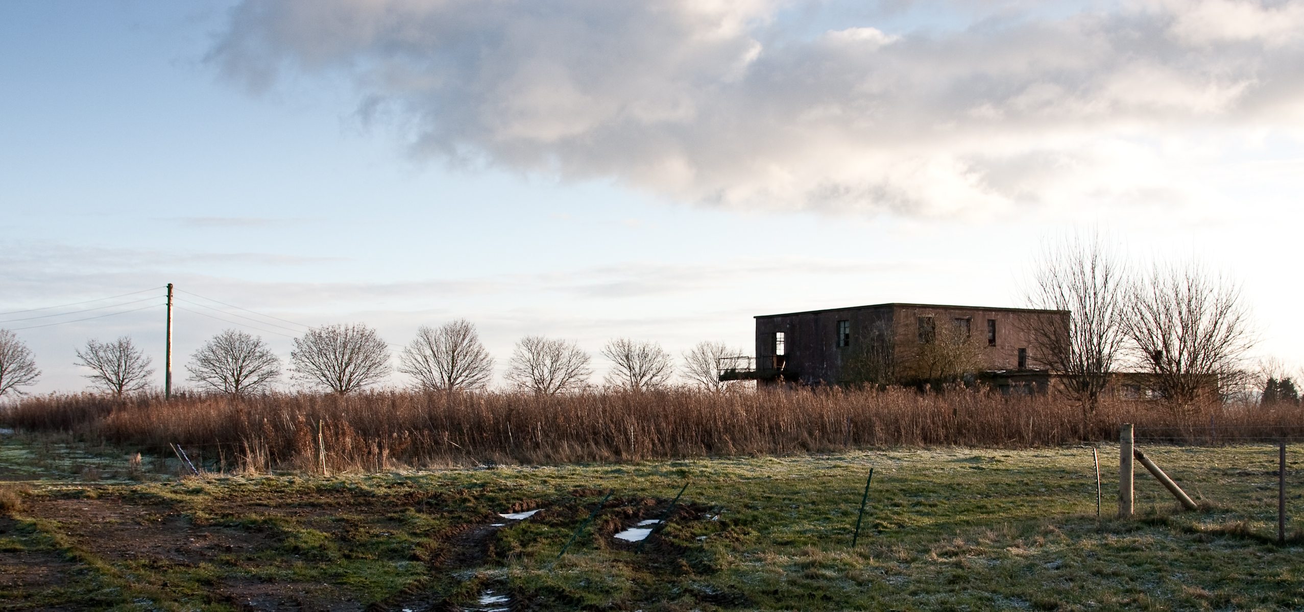 Old watchtower at RAF Wheaton Aston, in High Onn, UK.